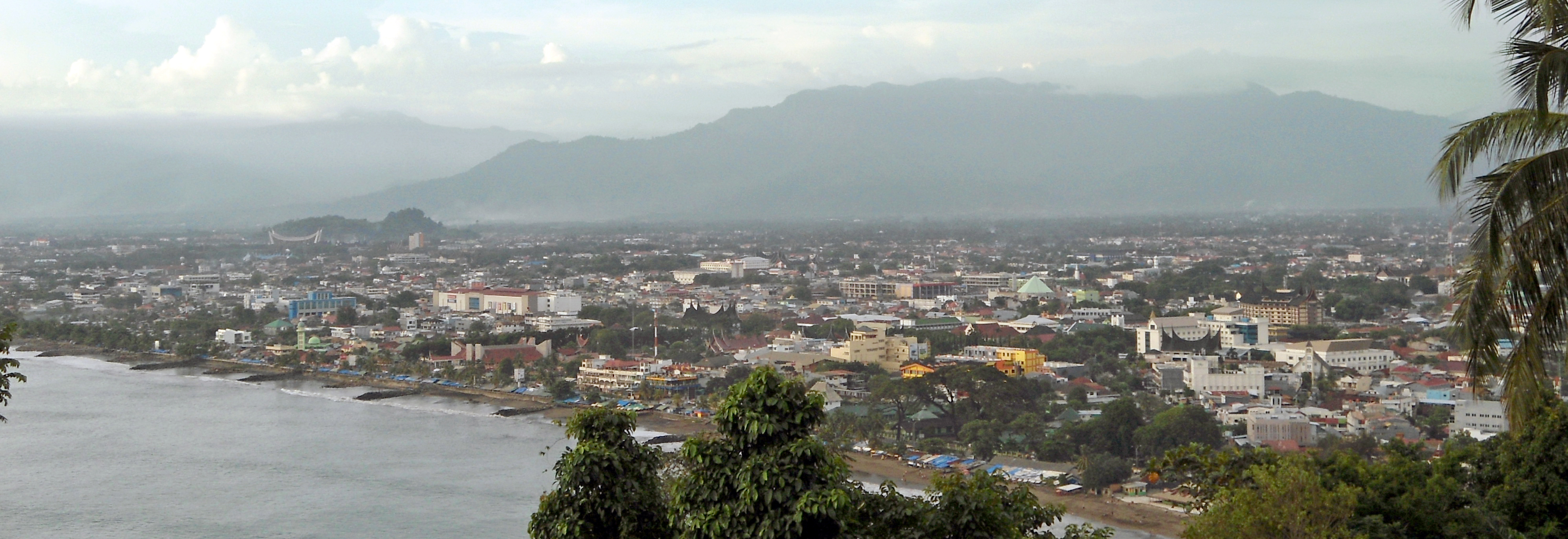 Downtown skyline of Padang from Gunung Padang hillBahasa Indonesia: Panorama Kota Padang dari Gunung Padang